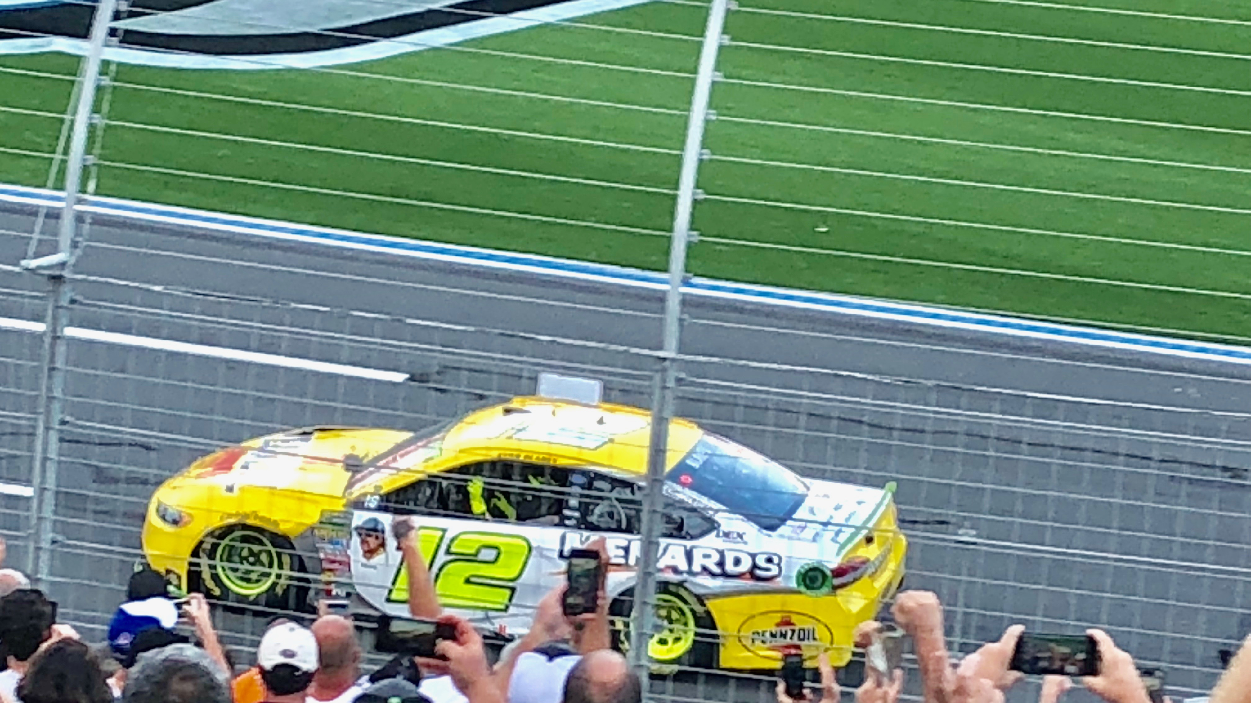 Ryan Blaney drives to the finish line in the opposite direction after winning the 2018 Bank of America 400